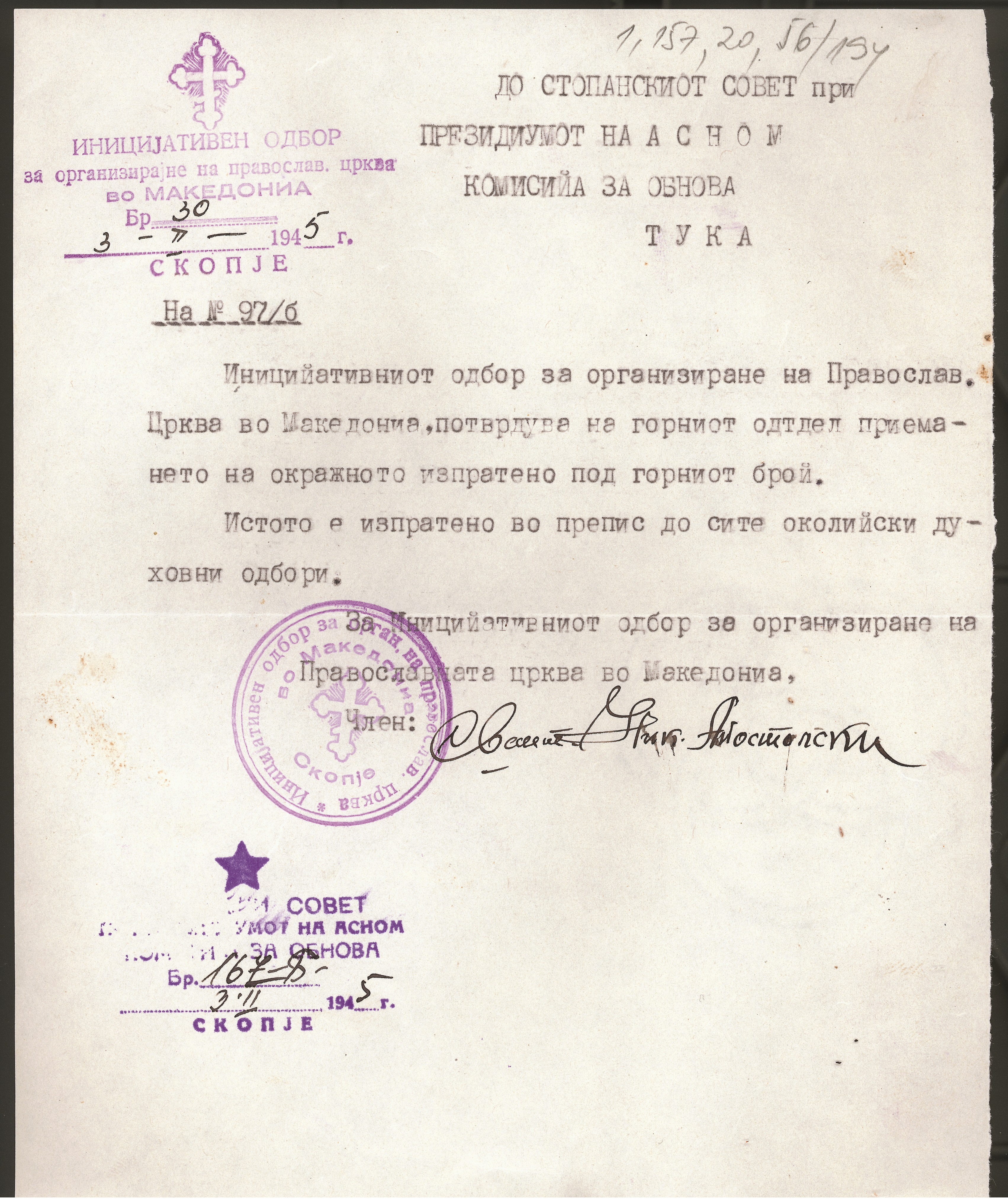 Letter from Initiative board addressed to Presidium of ASNOM, asking to organize independent Macedonian orthodox church, February 1945 This media file is produced by Wikipedian in Residence in Category:Wikipedian in Residence at DARM in 2016.